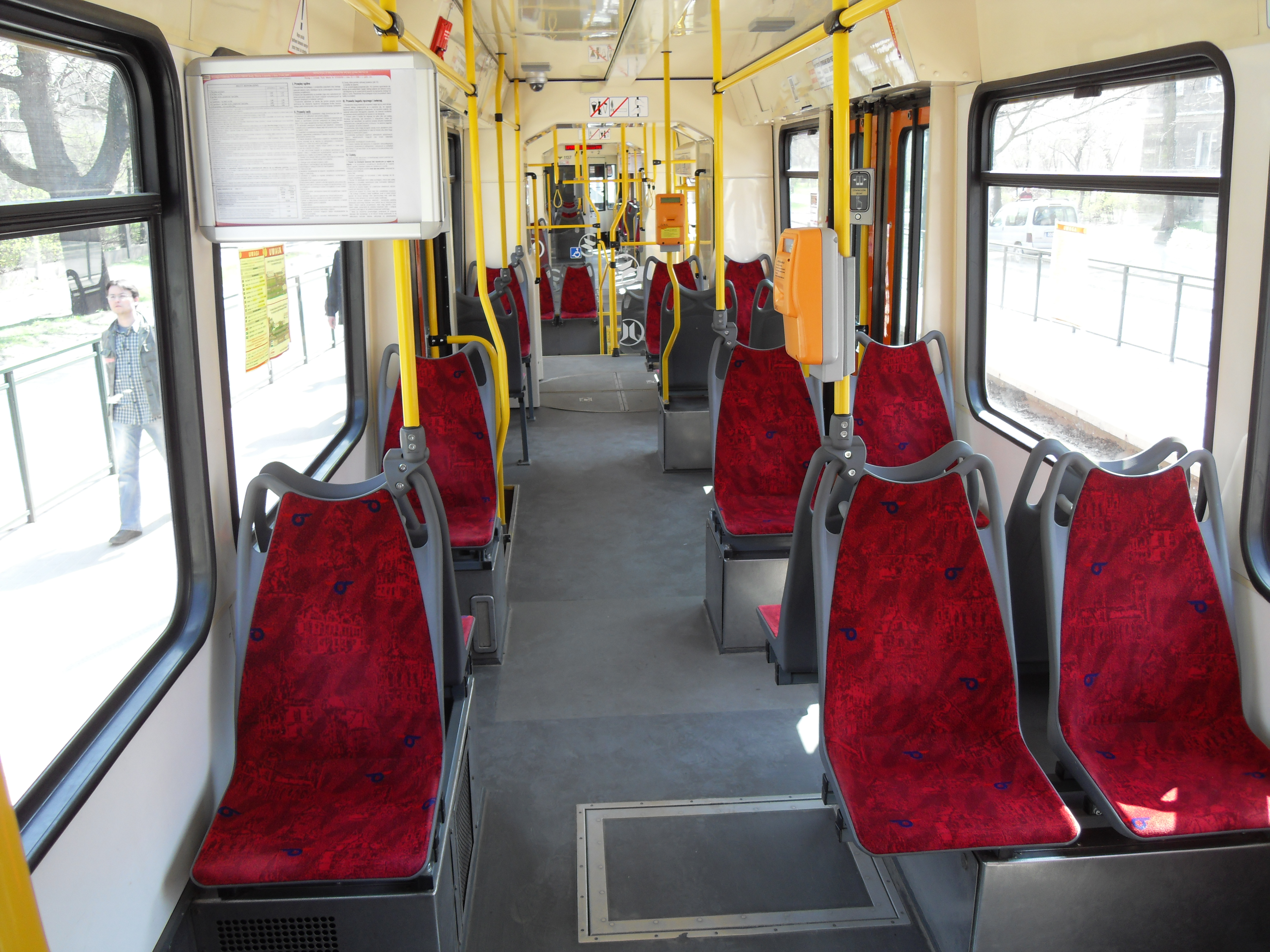 A Moderus Beta tram in Gdańsk (Poland) - the interior, red seats.